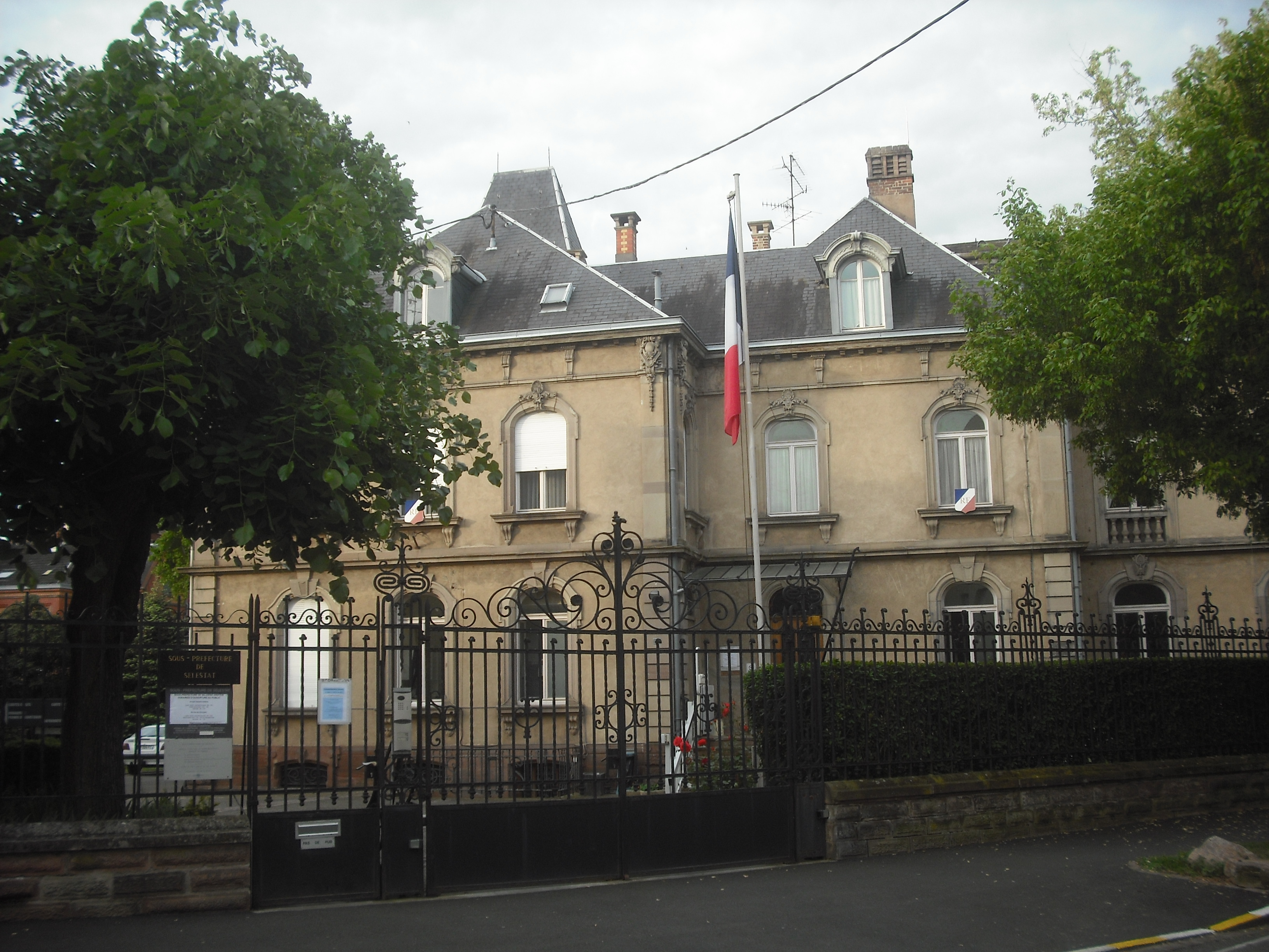 Sous-préfecture de Sélestat, France